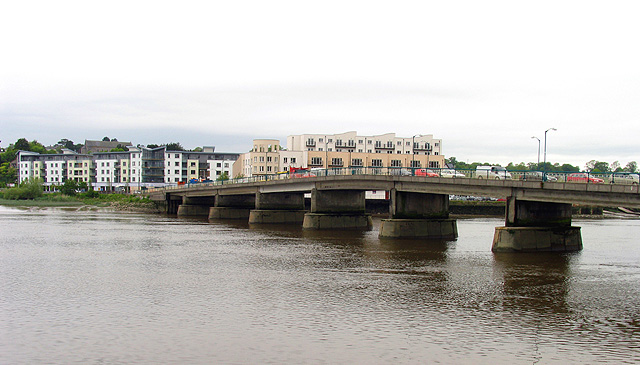 Bridge over the River at New Ross